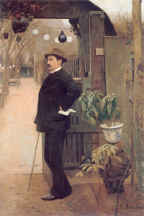 The painter, Miguel Utrillo, in the gardens of the Moulin de la Galette